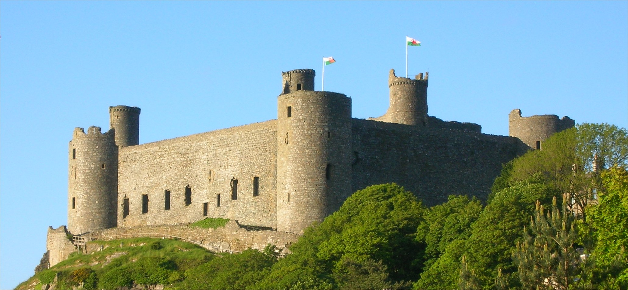 Harlech Castle, Wales, view from below the castle, looking north-east.